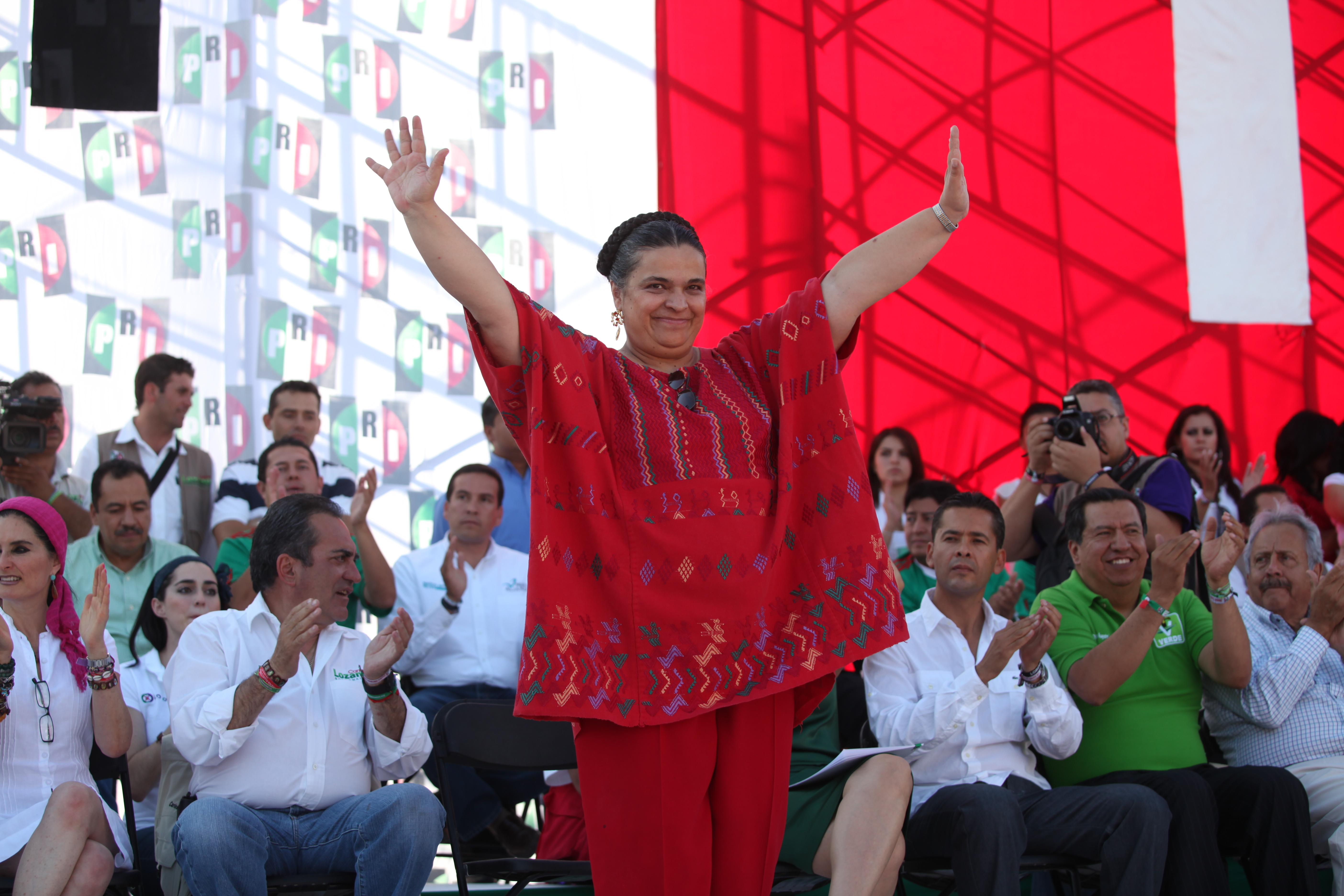 Beatriz Paredes, a Mexican politician who serves as president of the Institutional Revolutionary Party (PRI).